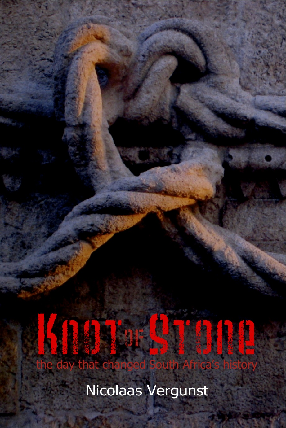 'Knot of Stone' is a work of historical detection in which two unlikely travel companions, Sonja Haas and Jason Tomas, find themselves drawn together after uncovering a mass-grave at the southern tip of Africa.